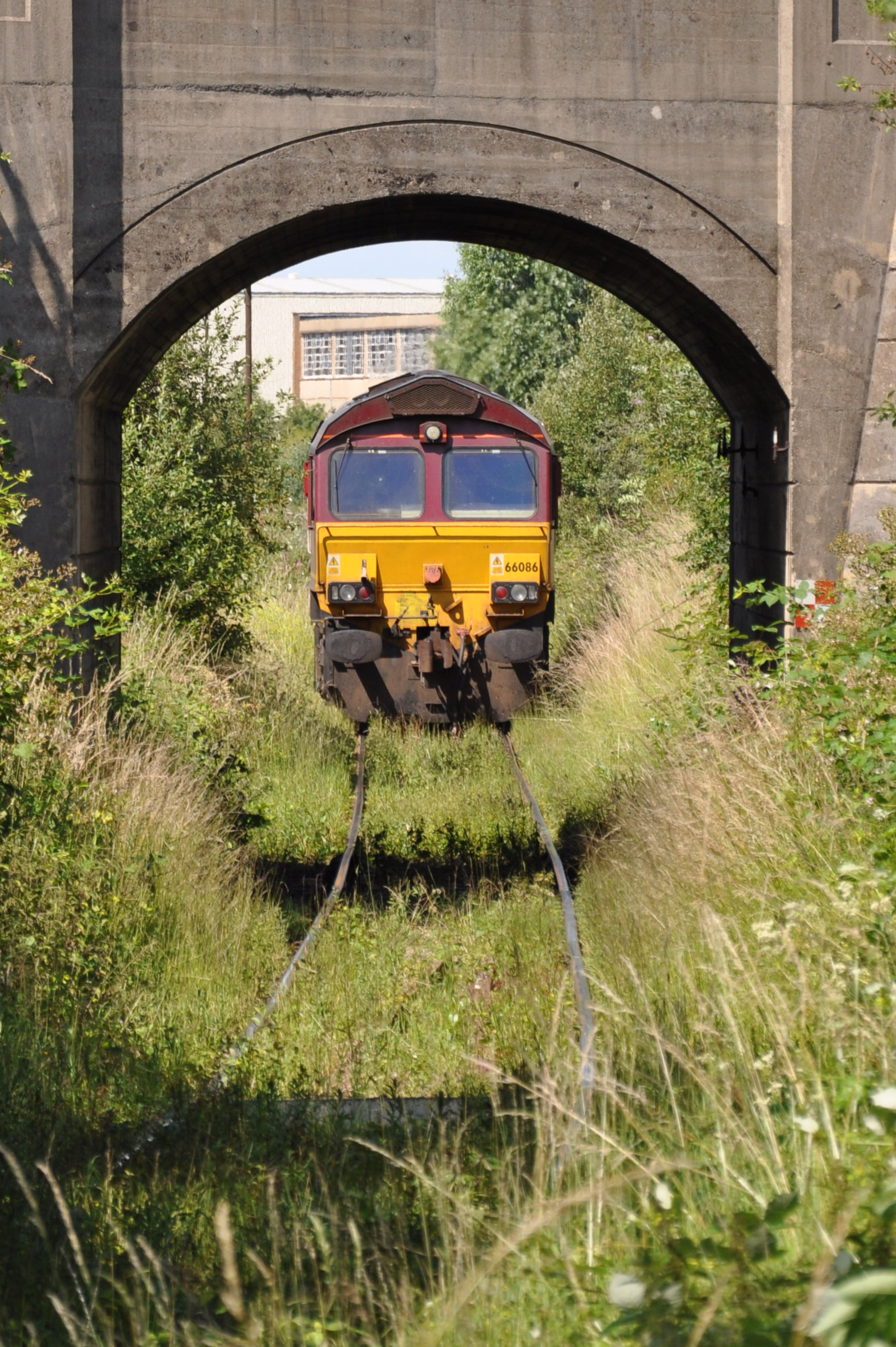 Resting in the weeds is 66086 waiting to collect the loaded scrap wagons from the scrap yard at Swindon, this train takes the scrap to Liverpool docks. The line was the Swindon to Highworth branch and my dad spent many days as a kid watching Pannier tanks grace this line in the 1950s, he was so regular at this exact spot that he knew the drivers and would often have a chat whilst the train would wait at a signal to gain access onto the mainline, and today as this train crept past me the driver popped his head out of the window and said hi, Like father like son 50 odd years later. The building in the background is the BMW factory, formerly Leyland and Rover plant.